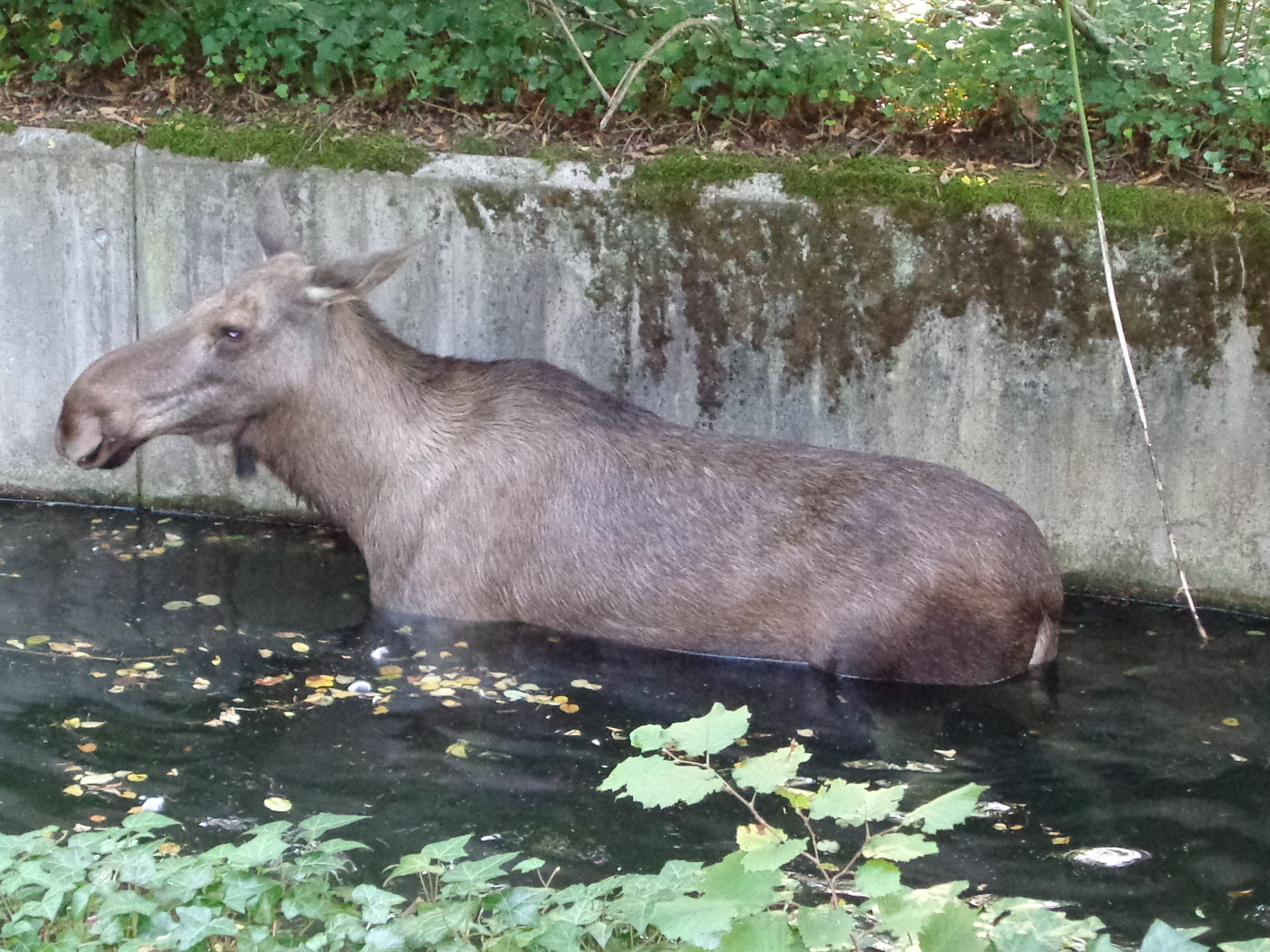 Moose in water at the Hellabrunn Zoo, Munich, Germany